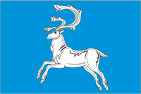 Viluysk (Yakutia), flag